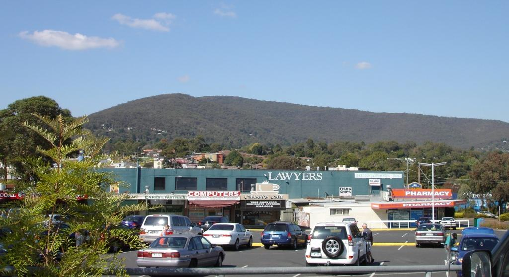 Image of Boronia Vic taken by HelloMojo